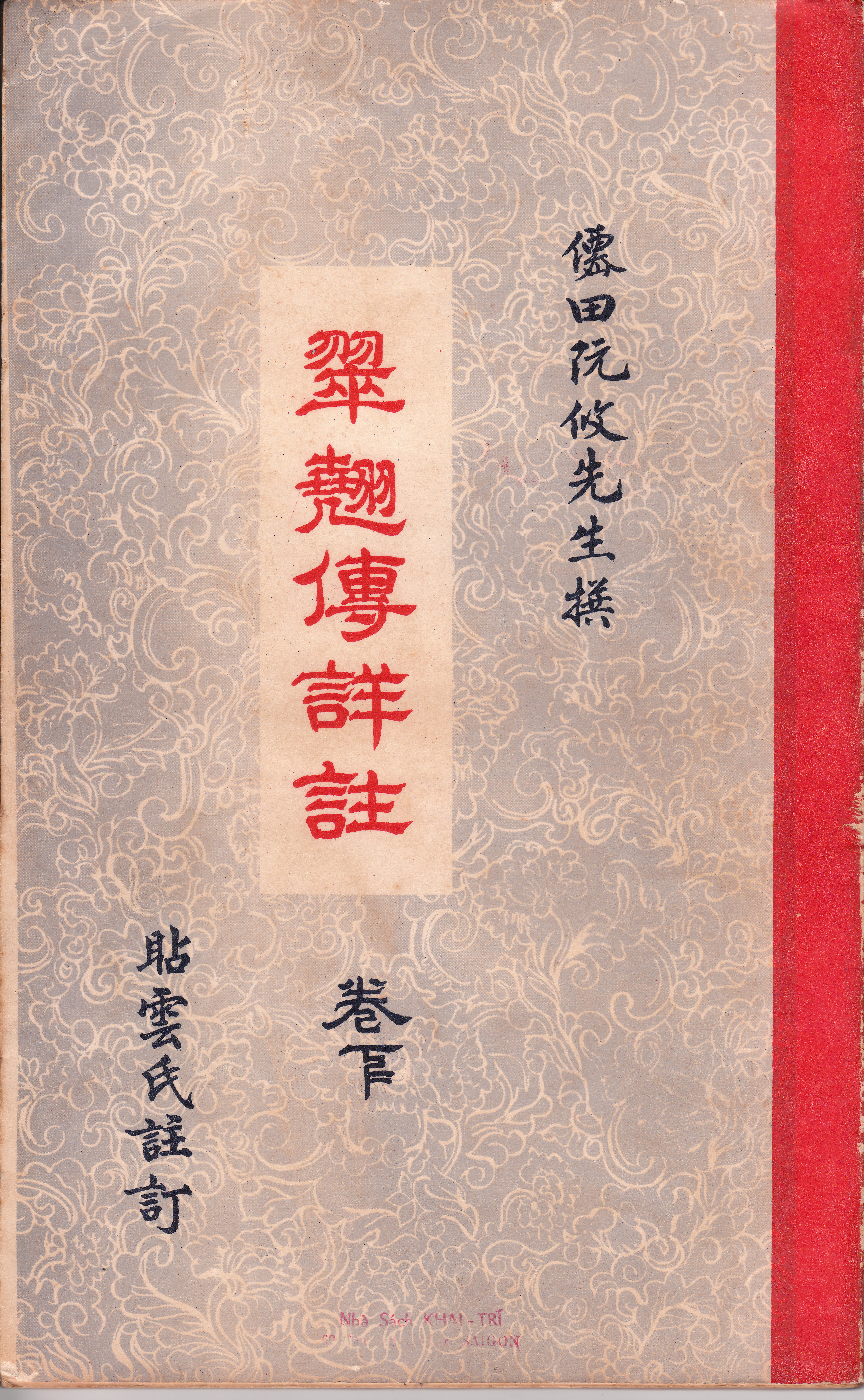 Vietnamese novel-in-verse in Nôm (old Vietnamese script)